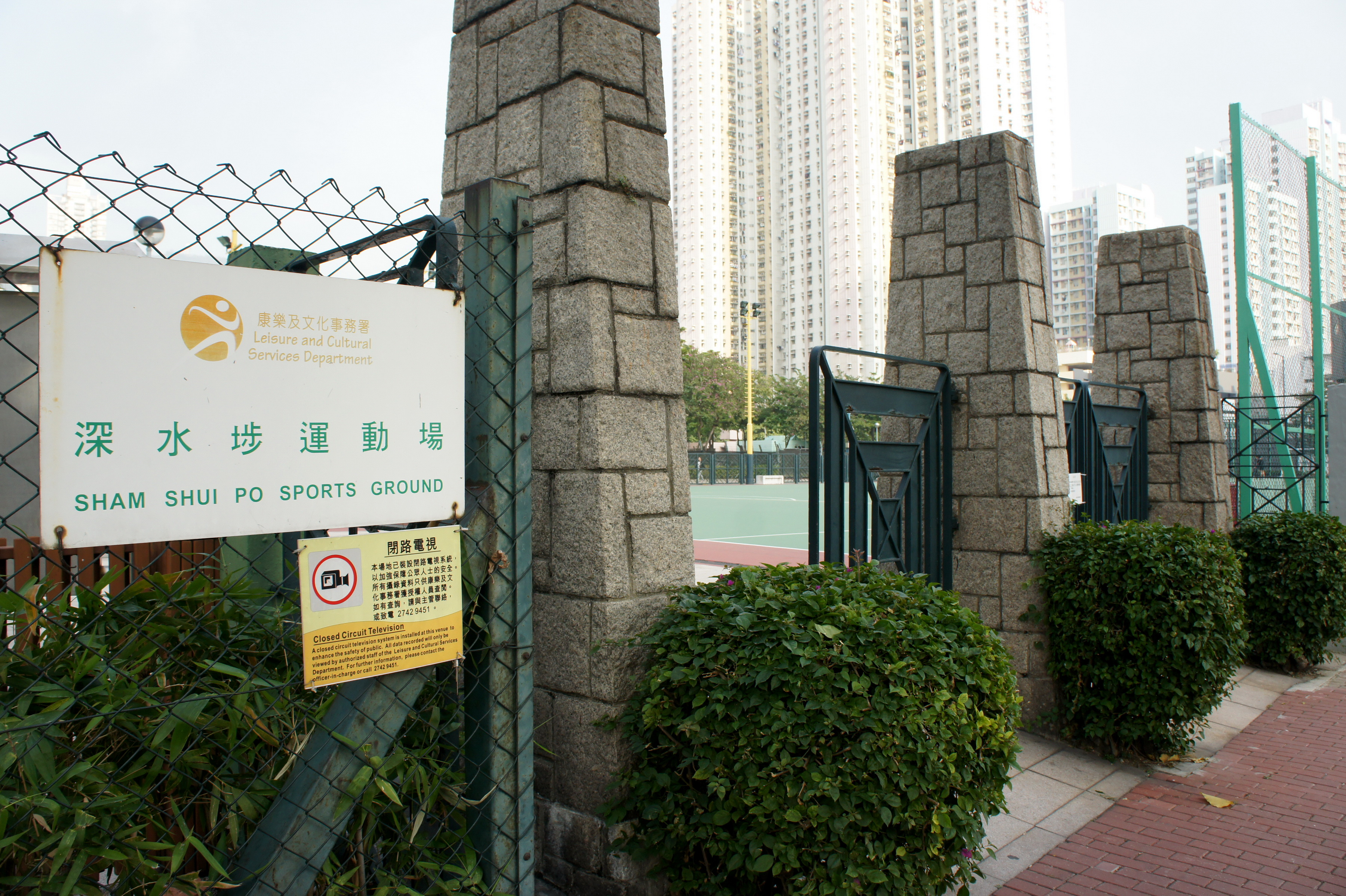 Sham Shui Po Sports Ground, Lai Chi Kok Road entrance, Kowloon, Hong Kong.